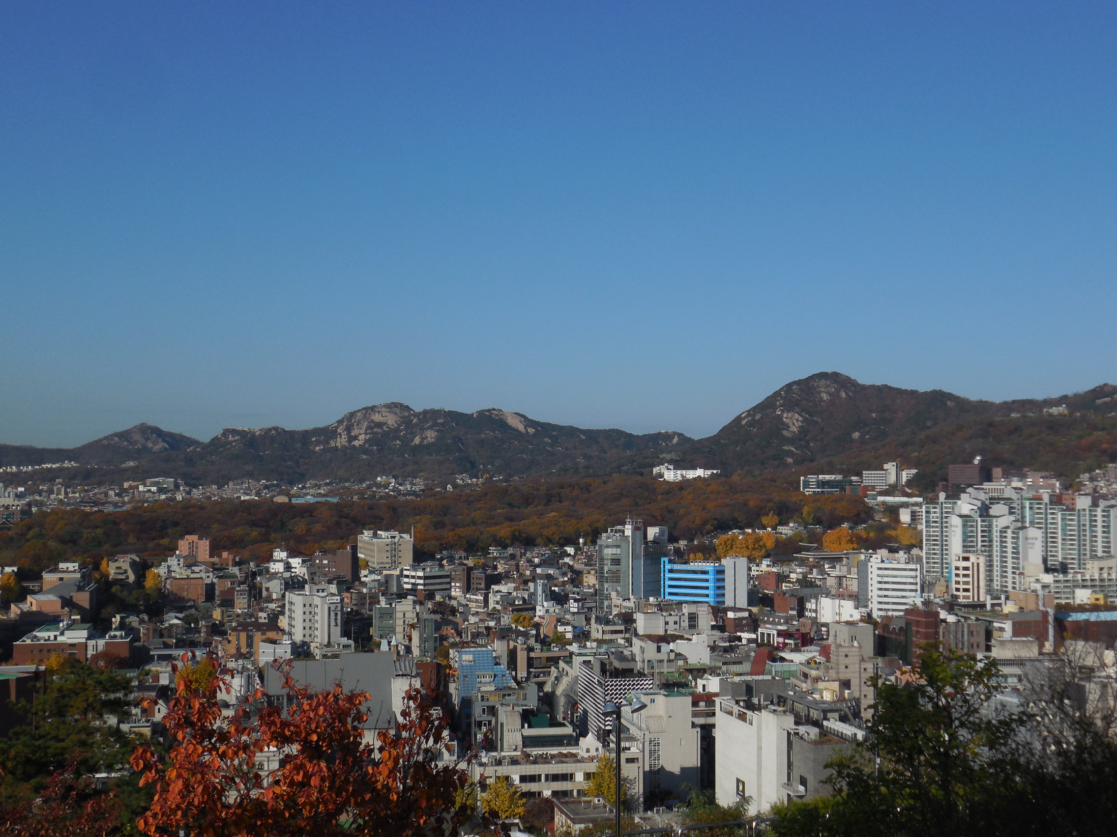 View of Jongno-gu from Naksan. Ansan, Inwangsan, and Bugaksan are seen.